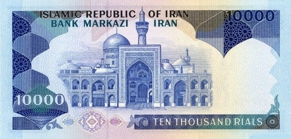 10000 IRR banknote (1981 issue)